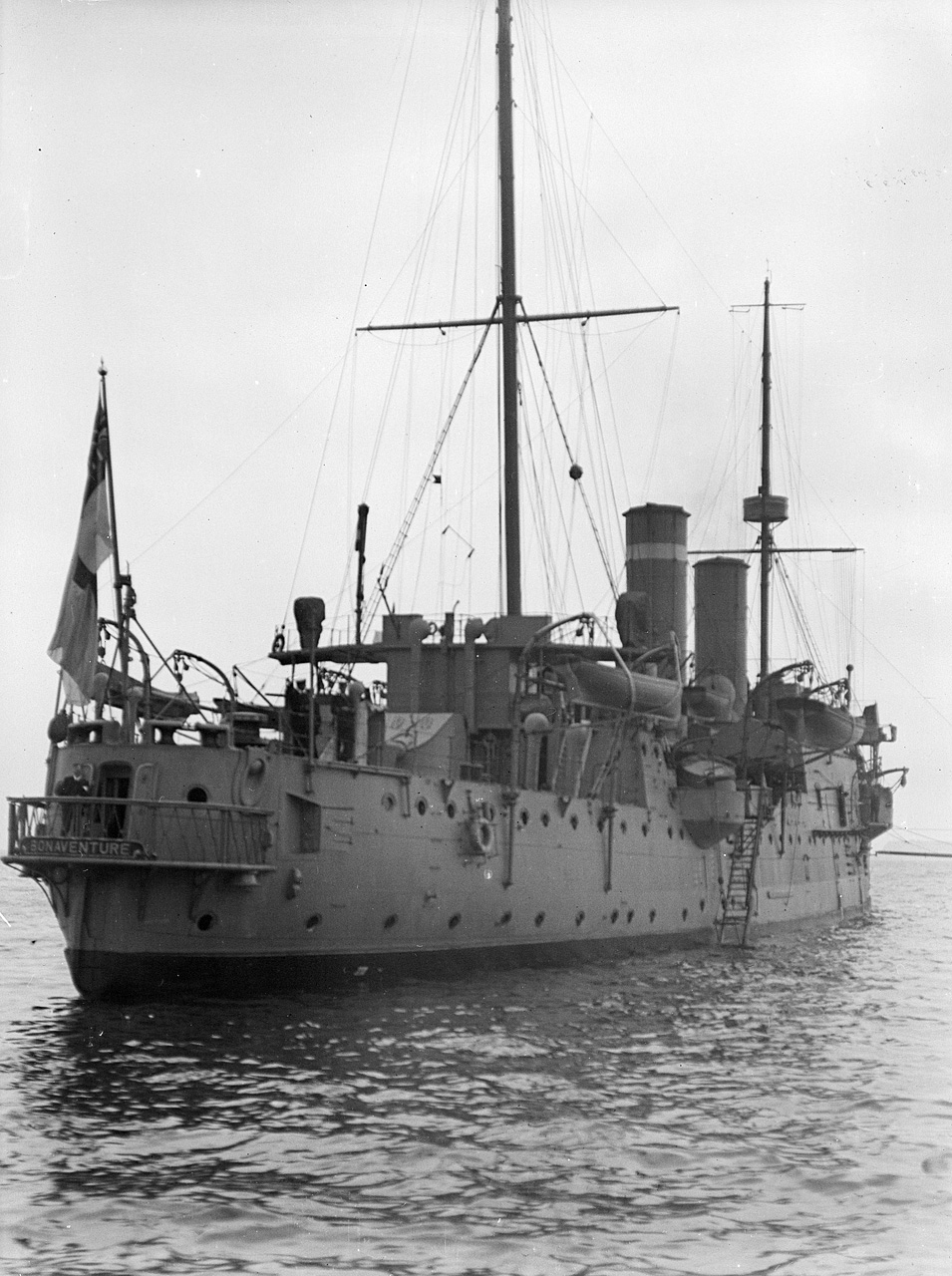 Photograph showing stern view of British cruiser HMS Bonaventure, anchored at Spithead.